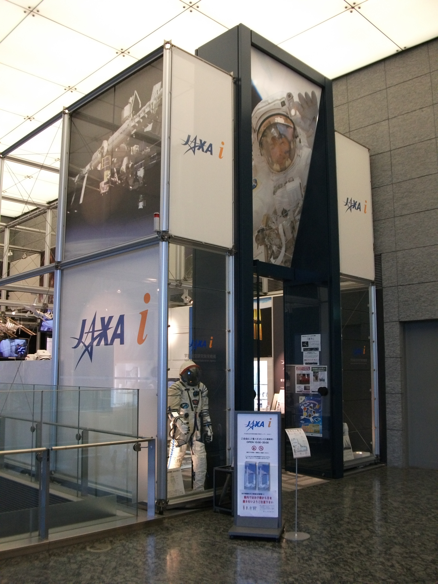 JAXA PR Center "JAXAi" (Tokyo, Japan)